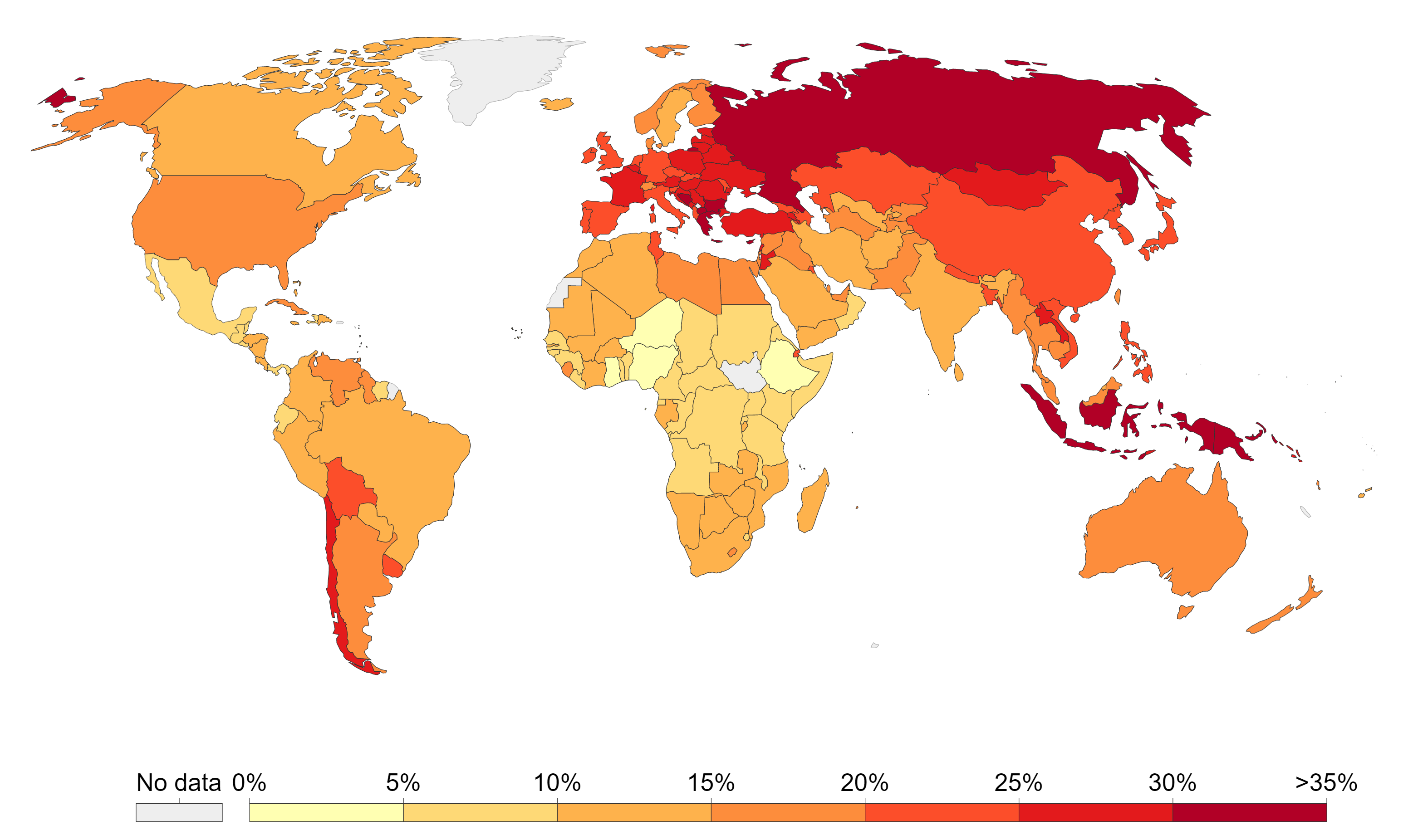 Estimates of the prevalence of daily smoking, defined as the percentage of men and women, of all ages, who smoke daily in 2012